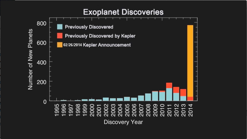 EXOPLANET DISCOVERIES - HISTOGRAM - February 26, 2014 The histogram shows the number of planet discoveries by year for roughly the past two decades of the exoplanet search. The blue bar shows previous planet discoveries, the red bar shows previous Kepler planet discoveries, the gold bar displays the 715 new planets verified by multiplicity.